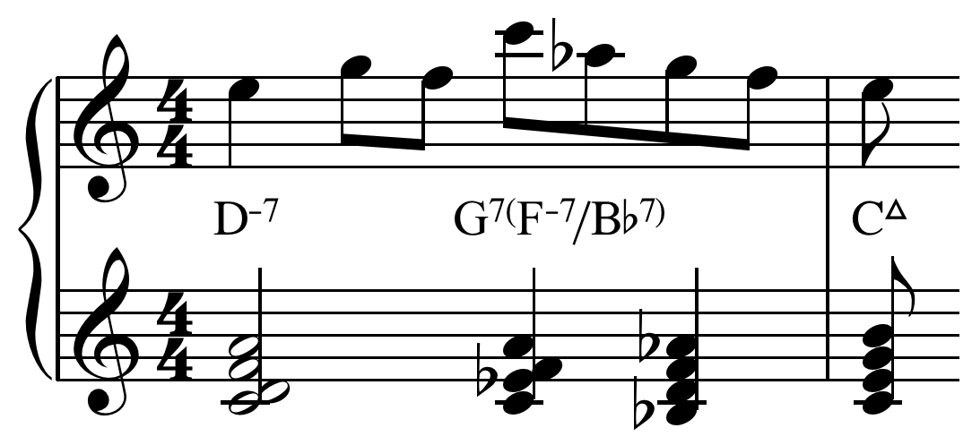 "'Backdoor' ii-V" in C: IV7-♭VII7-I.